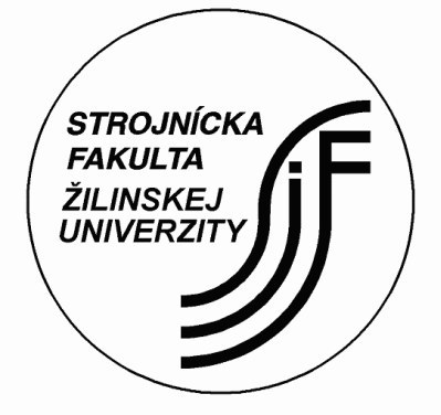 Previous official logo of the Faculty of Mechanical Engineering of University of Žilina used until year 2015